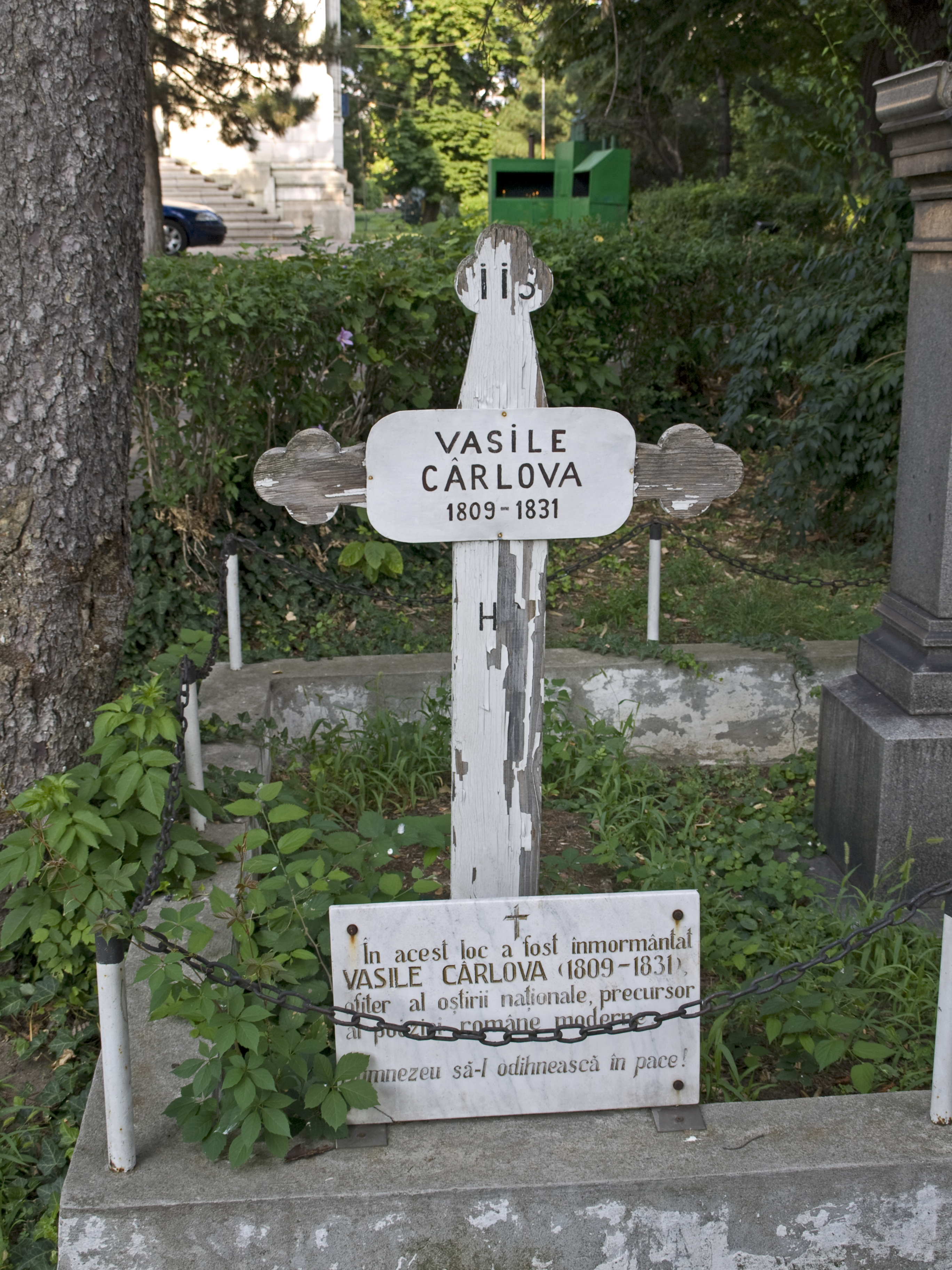 Tomb of Vasile Cârlova, on the premises of the Church of Madona Dudu, Craiova